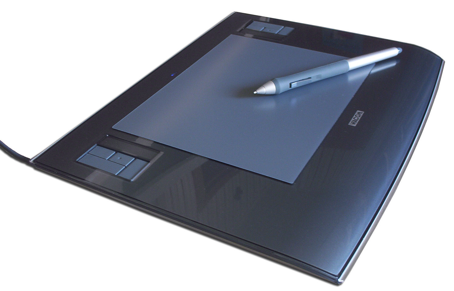 Wacom Pen Tablet with Pen, Intuos 3 A5